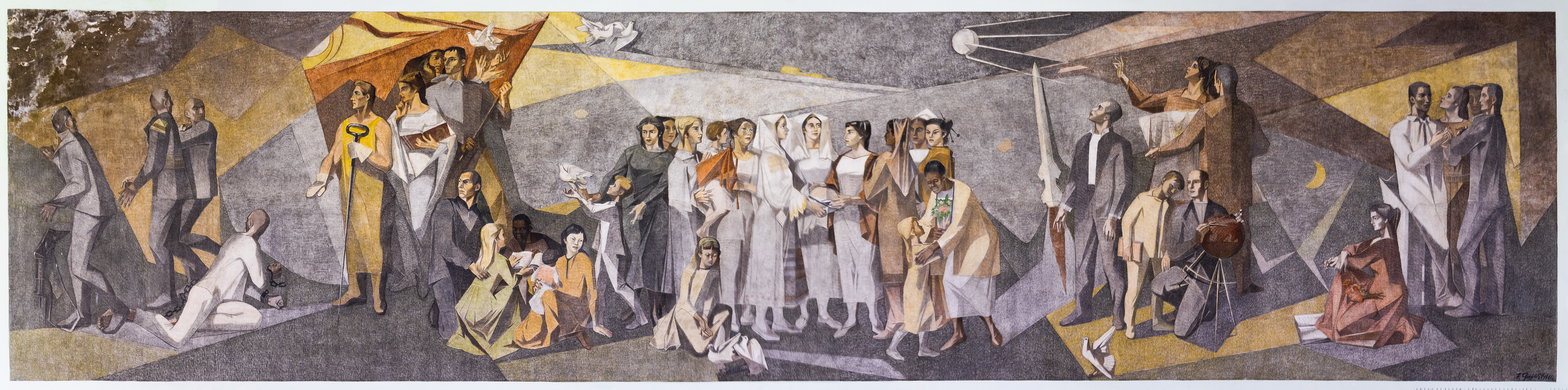 A fresco in the central hall of the main Bratislava railway station, painted in 1960 by František Gajdoš. On the left, there's three capitalists fleeing in their business suits, one of them dropping a gun. On the ground, watching them go, there's a worker, with his chains broken. Next group comprises a steel mill worker, an intellectual, and a man waving a red flag. Behind, there's a lady releasing doves, to symbolise peace. Next, teachers. One of them is throwing shade at the capitalists. The group here is explicitly internationalist and non-racist, with Africans and Asians participating in their national dress.. To the right of these are a group of women and children in traditional costumes. I believe the ladies in the white headdresses are wearing traditional Slovak costumes. Next up, Sputnik, launched less than 3 years before the fresco was painted, a rocket, and a mixed-gender group of engineers, including a student receiving instruction in geometry. The last group I'm unsure about - they're possibly scientists, but there's also a lady kneeling with a bunch of flowers and an open book. I'm guessing that she might be a Future Person, memorialising the efforts sacrifices etc of her socialist predecessors.